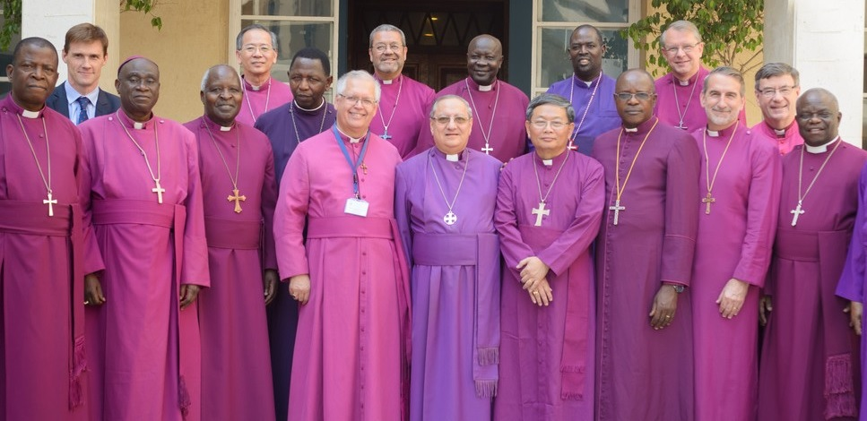 Anglican primates and bishops prior to a meet with the President of Egypt, during the 6th Global South Conference, Cairo, 2016.